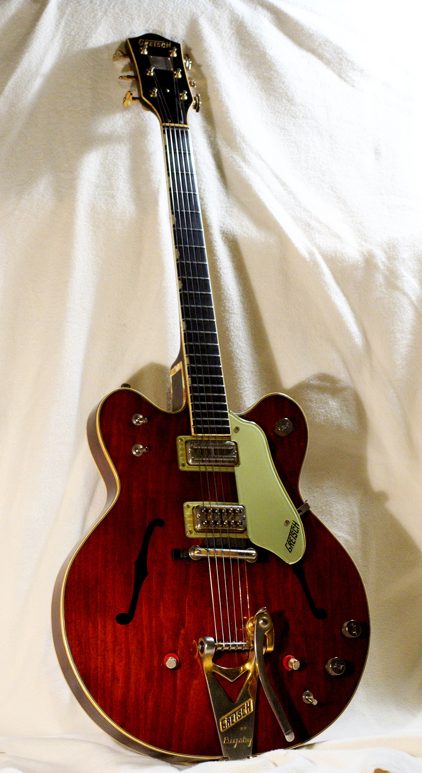 Gretsch Country Gentleman 1964 6122 Chet Atkins Country Gentlemen